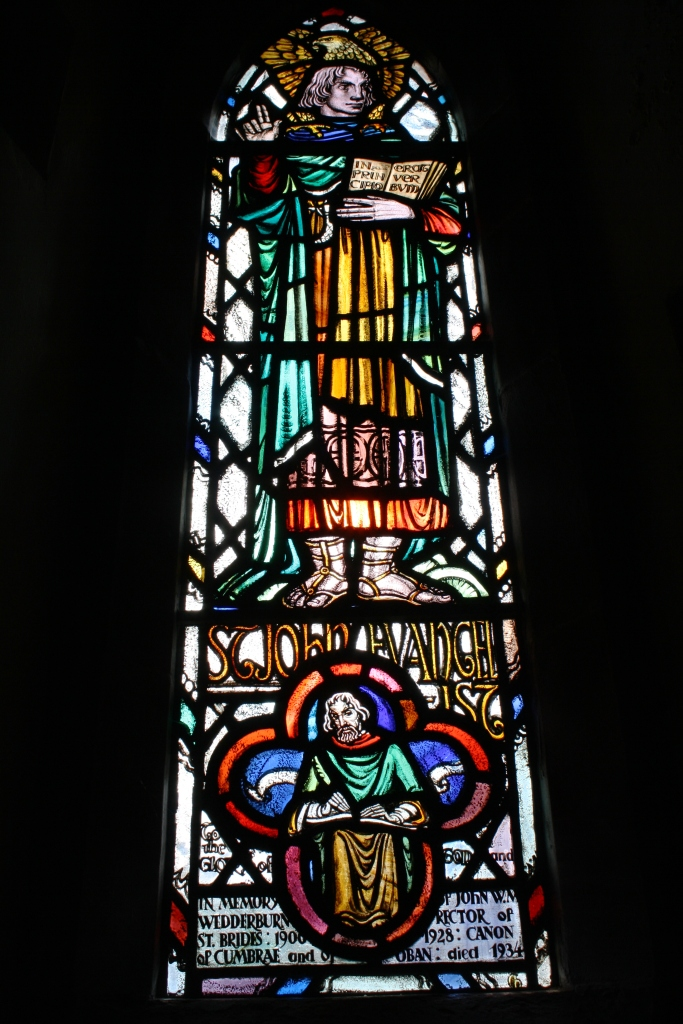 Stained glass window in St Bride’s Church,Onich, North Ballachulish in the Highlands. Dates from 1935. Is in the chancel’s south wall and consists of a single light window portraying “St John the Evangelist”.